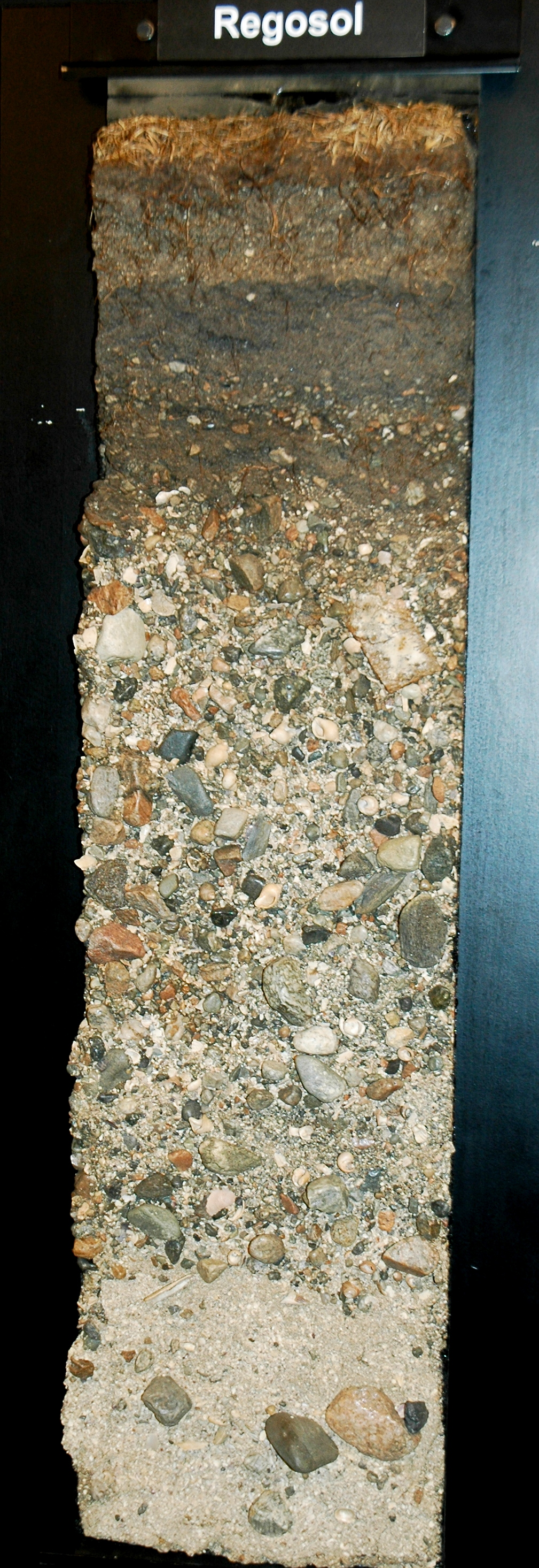 Soil profile of a Regosol